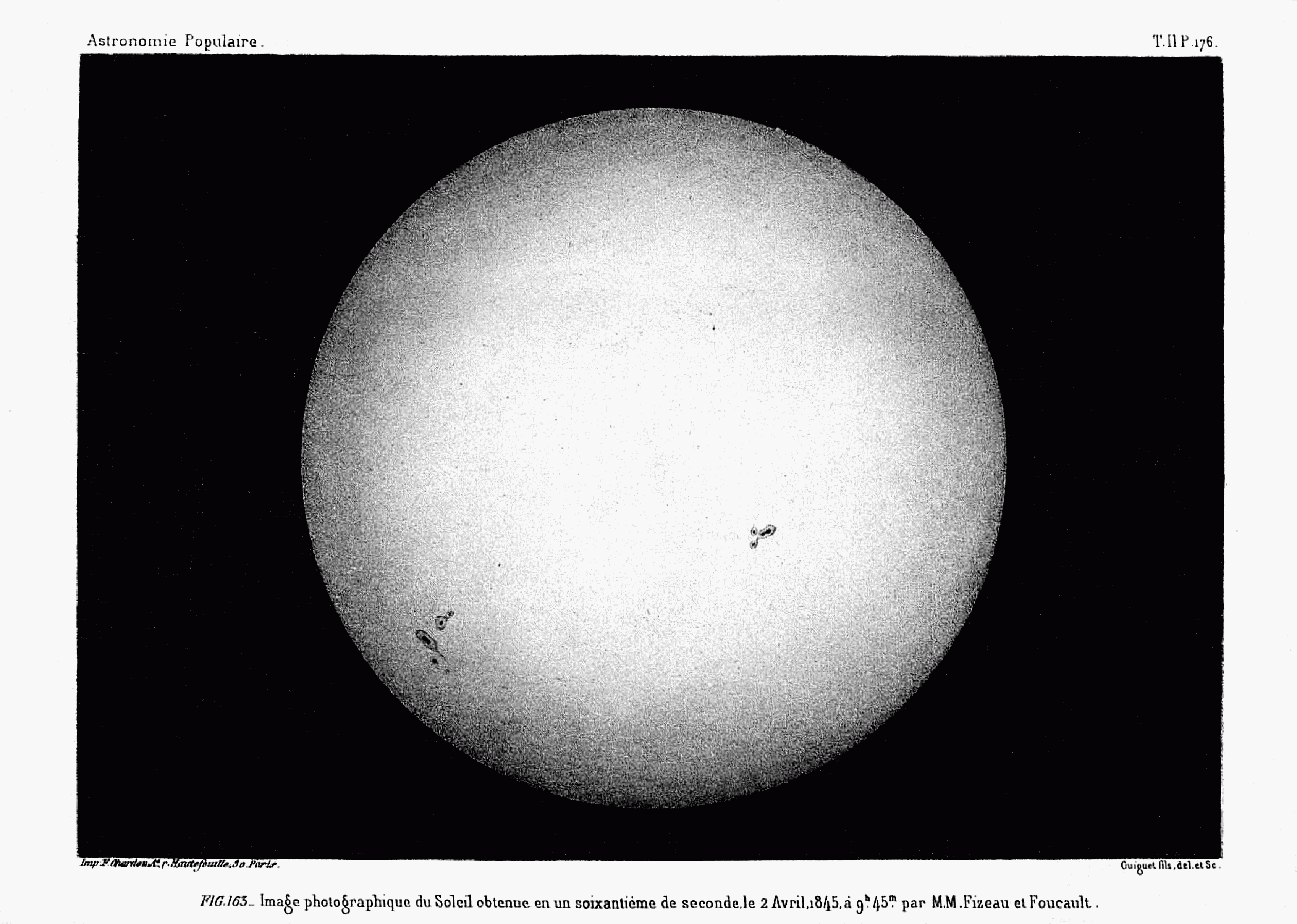 Daguerrotype image of the Sun using a 1/60 second exposure, taken on 2 April 1845 at 9:45 AM by Hippolyte Fizeau and Léon Foucault. This is the earliest known photograph that clearly shows the presence of sunspots on the Sun's surface.